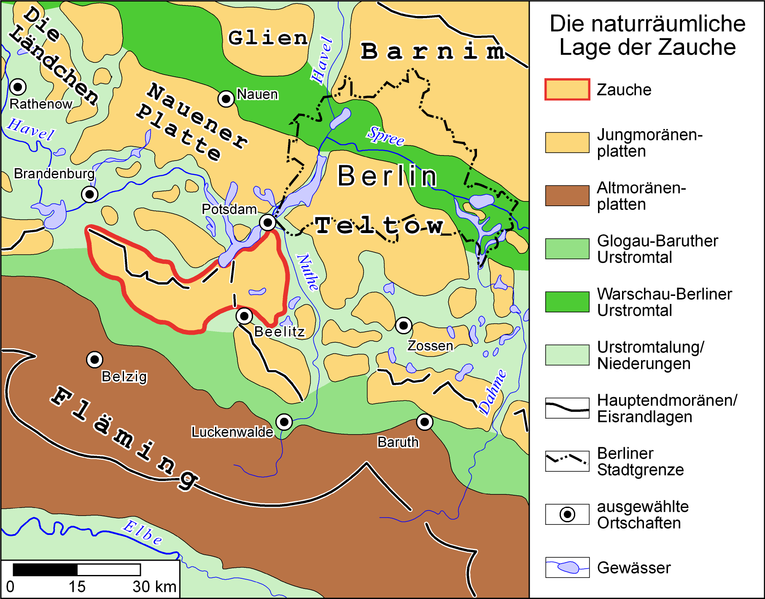 Landskape of Zauche, Brandenburg Germany